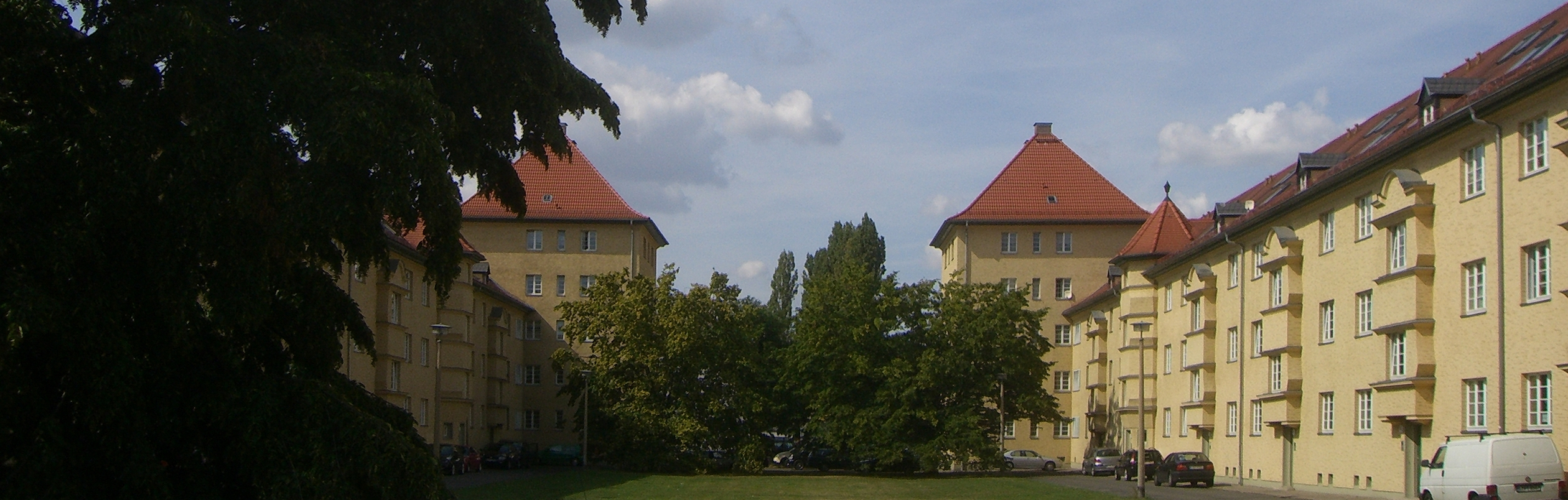 Apartment buildings Lützner Plan, architect: Carl James Bühring